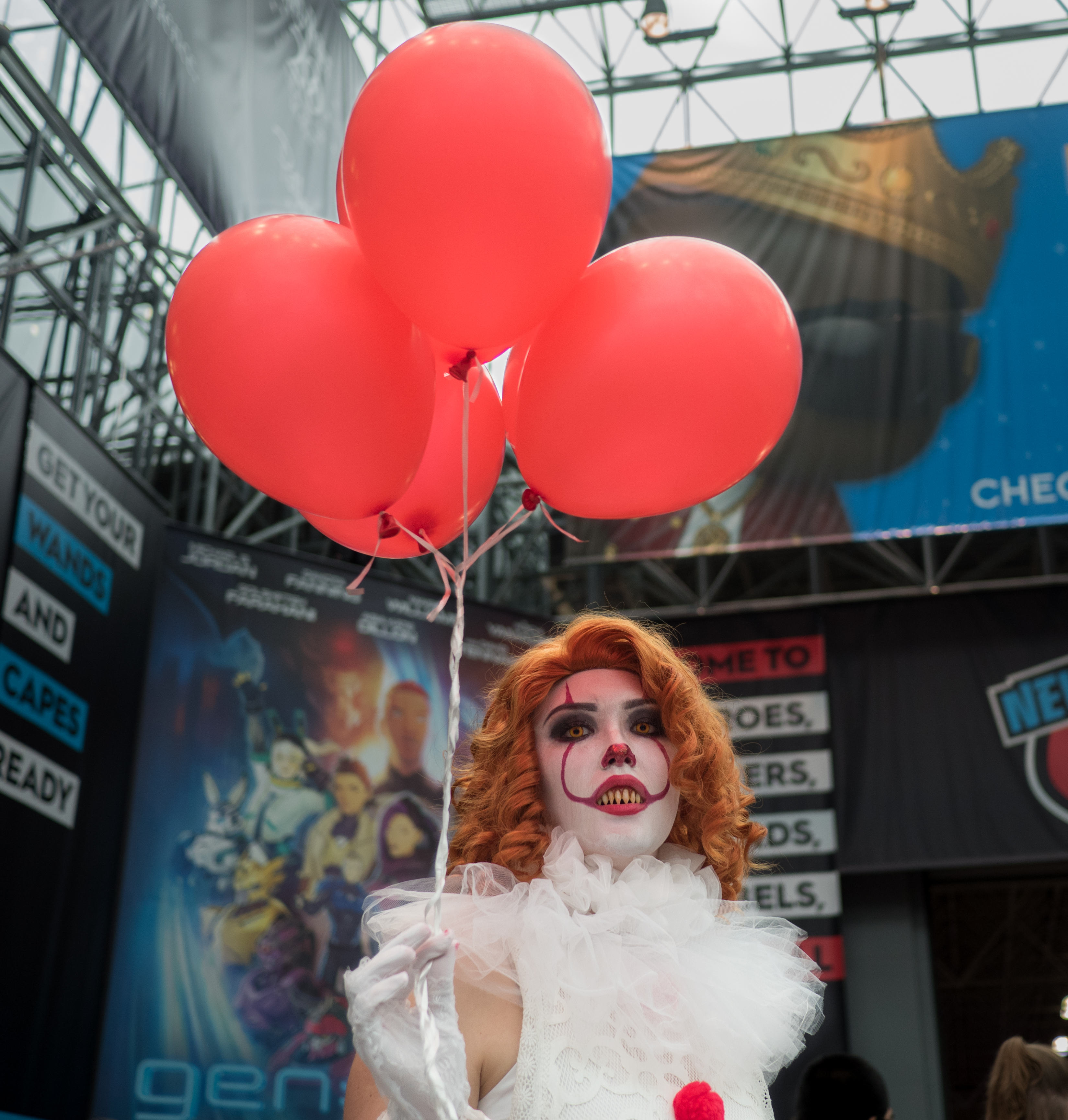 Cosplayer (Pennywise from It) at New York Comic Con in October 2018.